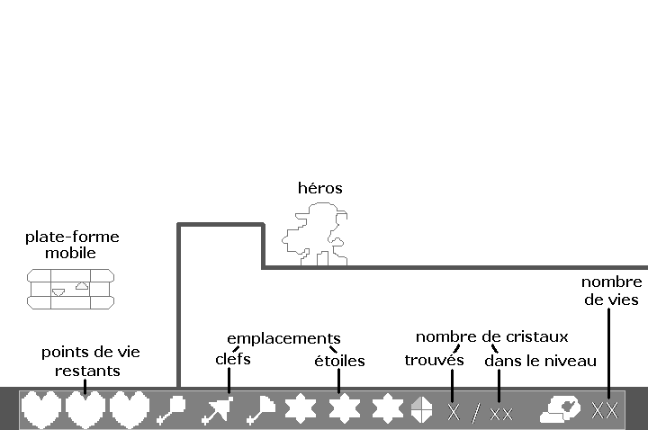 Interface of the video game Klonoa: Empire of Dreams (FR).